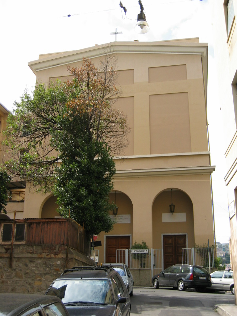 St. G.B. Cottolengo Church - Genoa, Italy